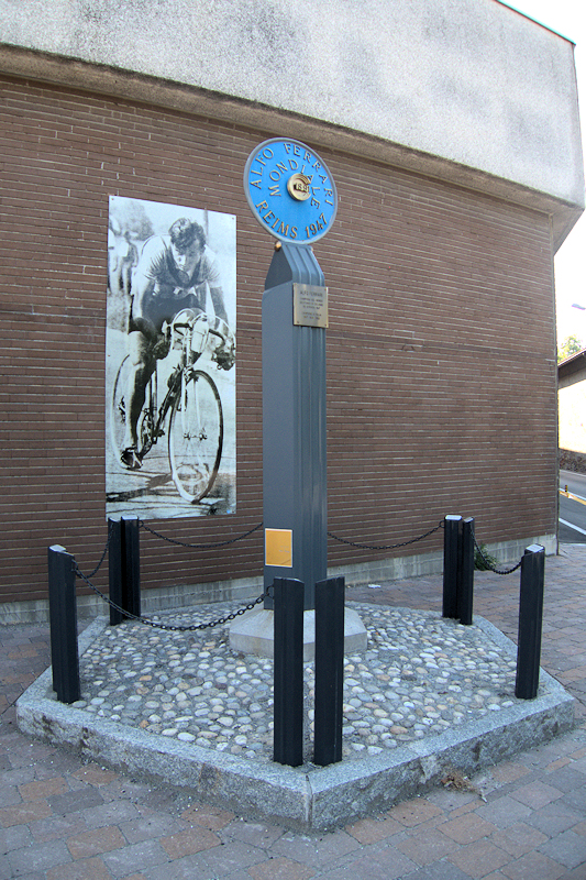 Monument to the cyclist rider Alfo Ferrari in Sospiro (Province of Cremona), his city of birth